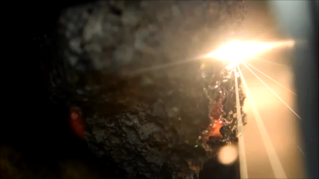 This is an image of laser ablation of an asteroid like sample, basalt. Laser ablation can be used to prevent asteroid threats.